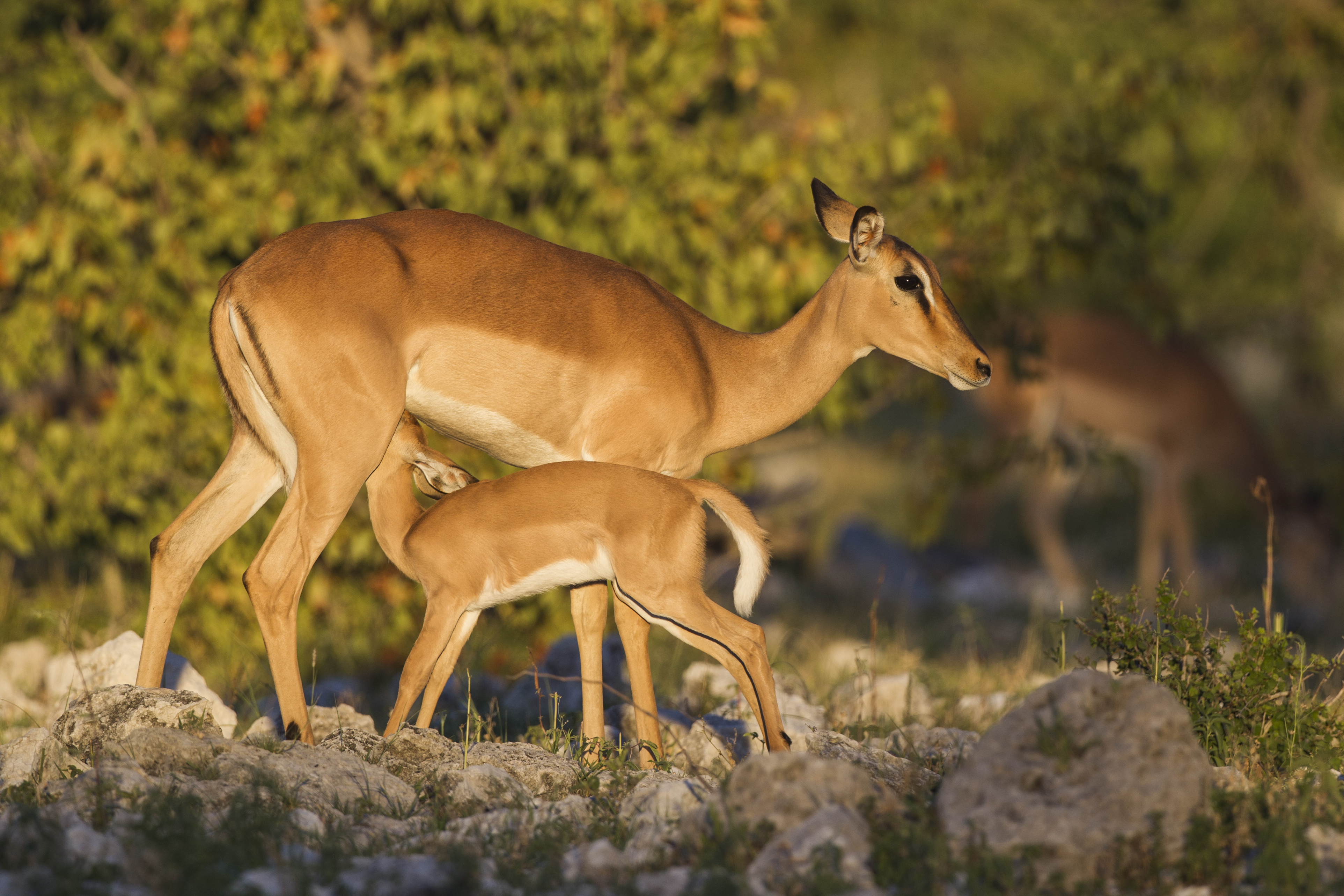 Female black-faced impala and offspring